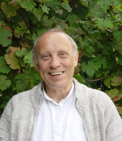 Hansjürgen Bulkowski, German writer